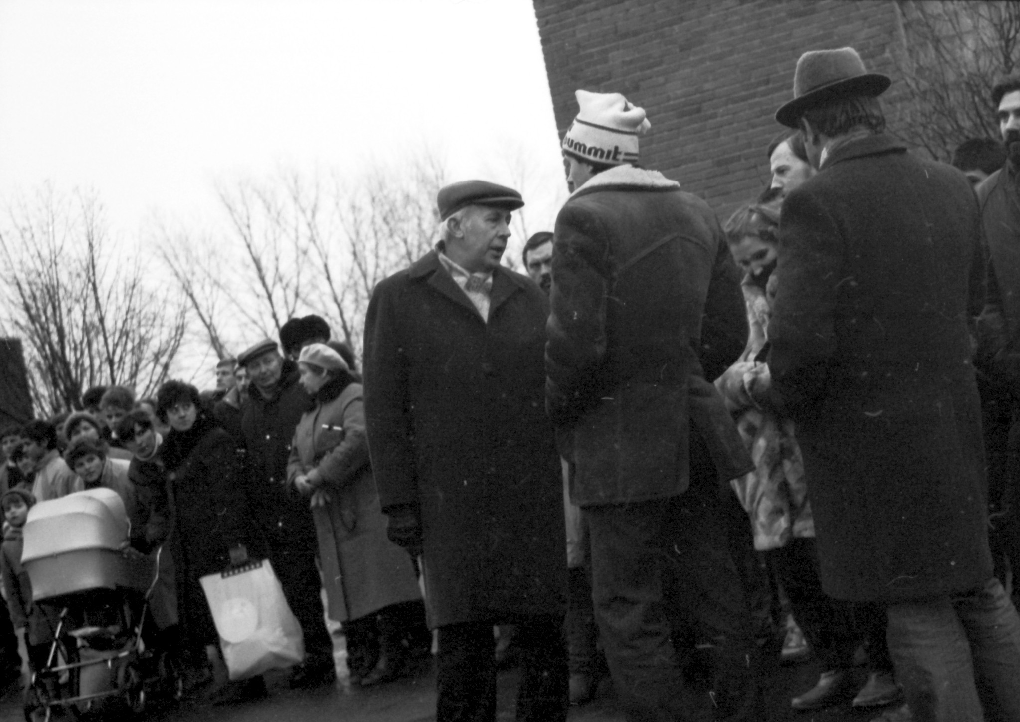 Picket against Mikhail Gorbachew 1990-01-12 in Bridai, Šiauliai district, Lithuania. Head of KGB in Lithuania Eduardas Eismuntas